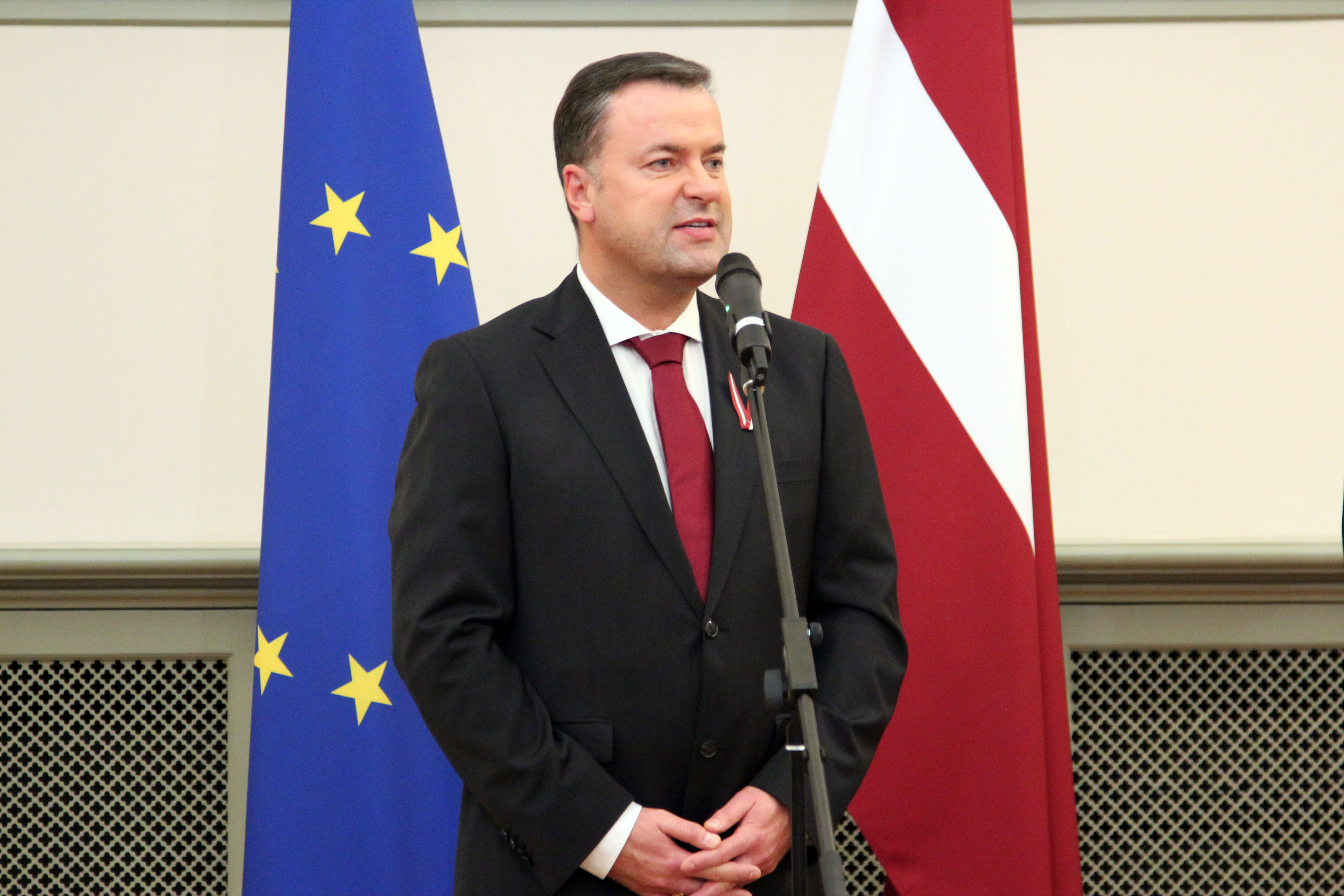 Ringolds Beinarovics in 2016